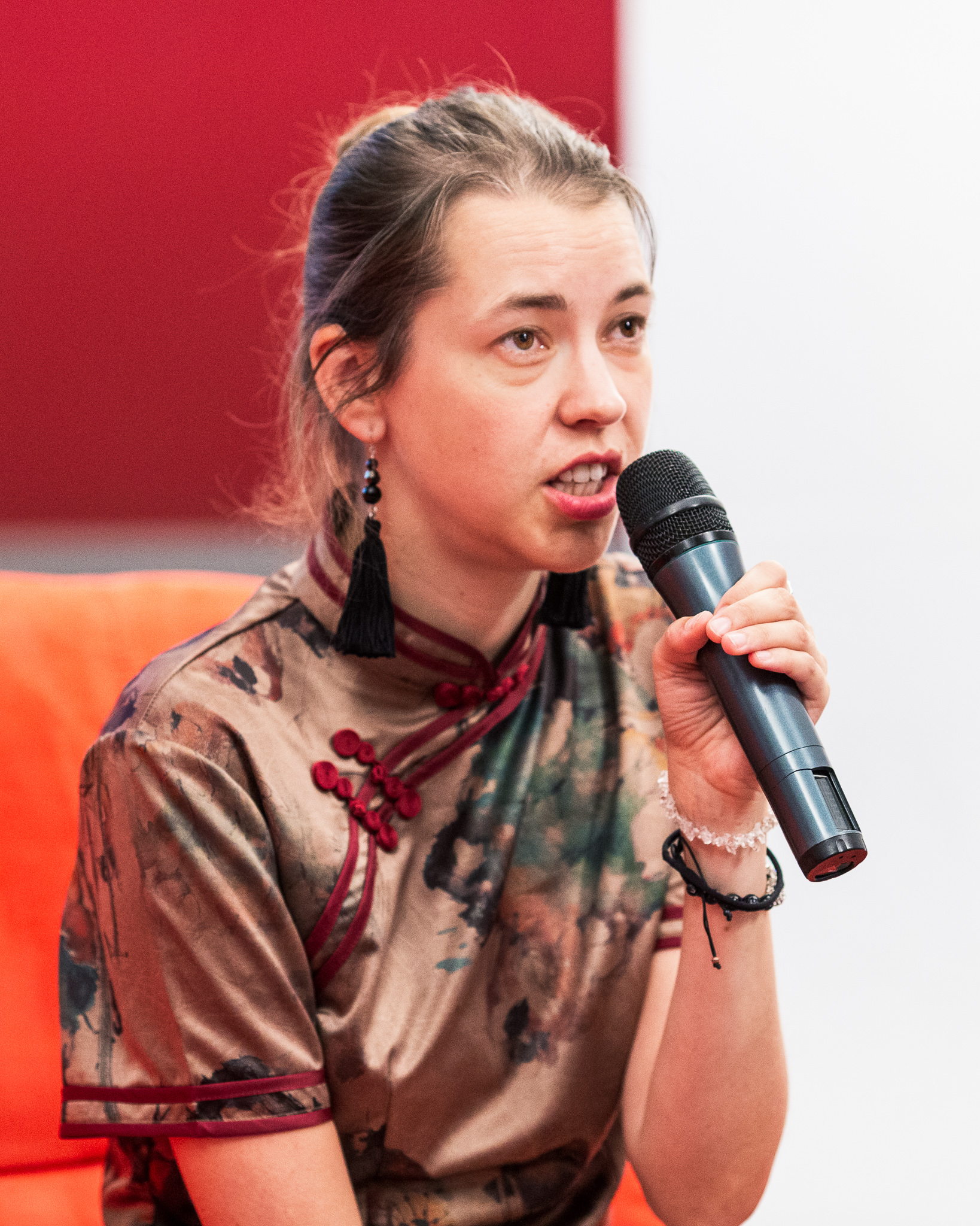 Tereza Semotamová on Authors’ Reading Month 2019, Wrocław, Poland